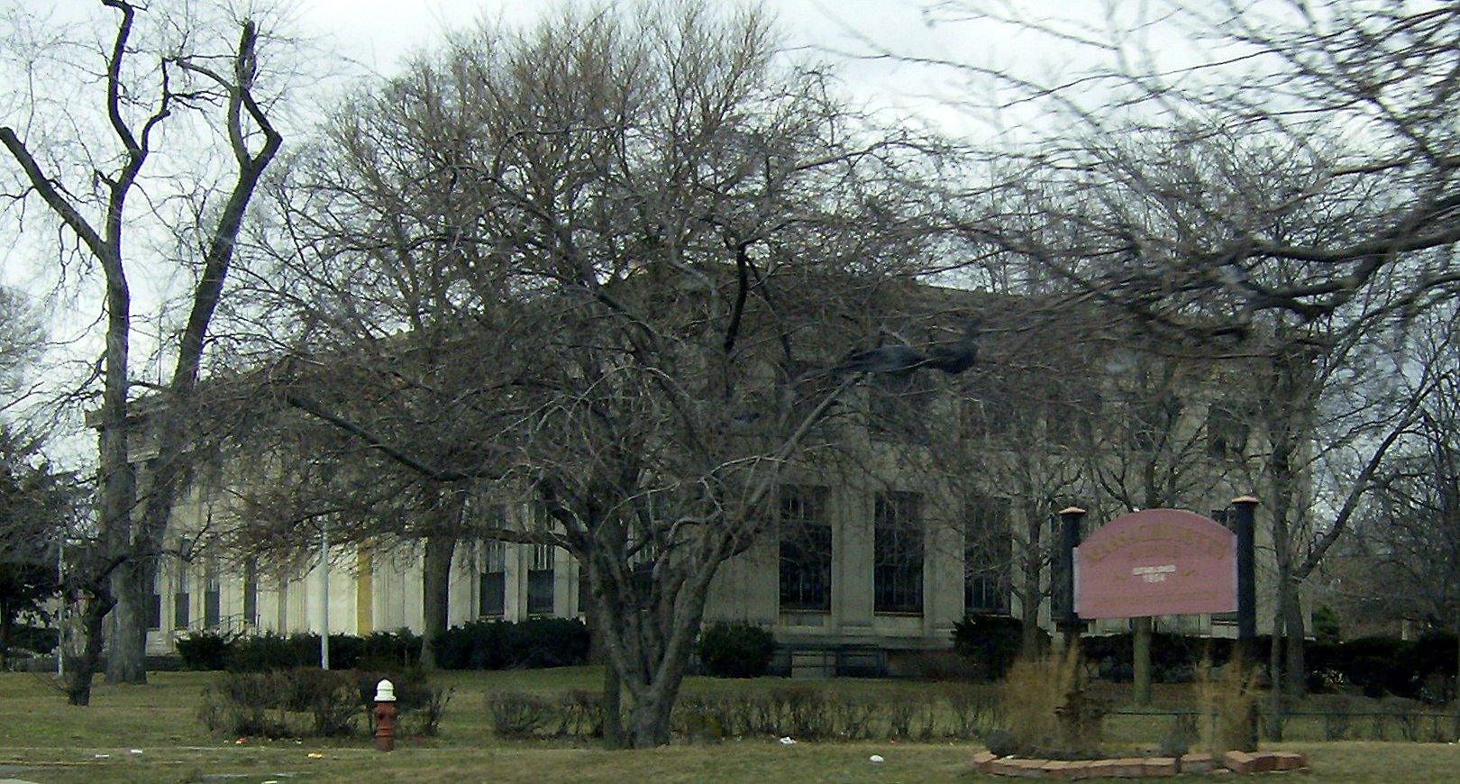 McGregor Library, closed library facility in Highland Park, Michigan